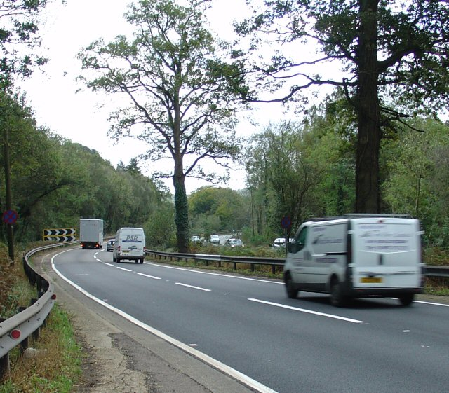 Sharp Righthand bend on Handcross Hill (A23 Southbound) A notorious stretch of the A23 for accidents. The advised speed limit is 55mph for good reason, as the bends on this dual carriageway are sharper than might normally be expected on such a road.